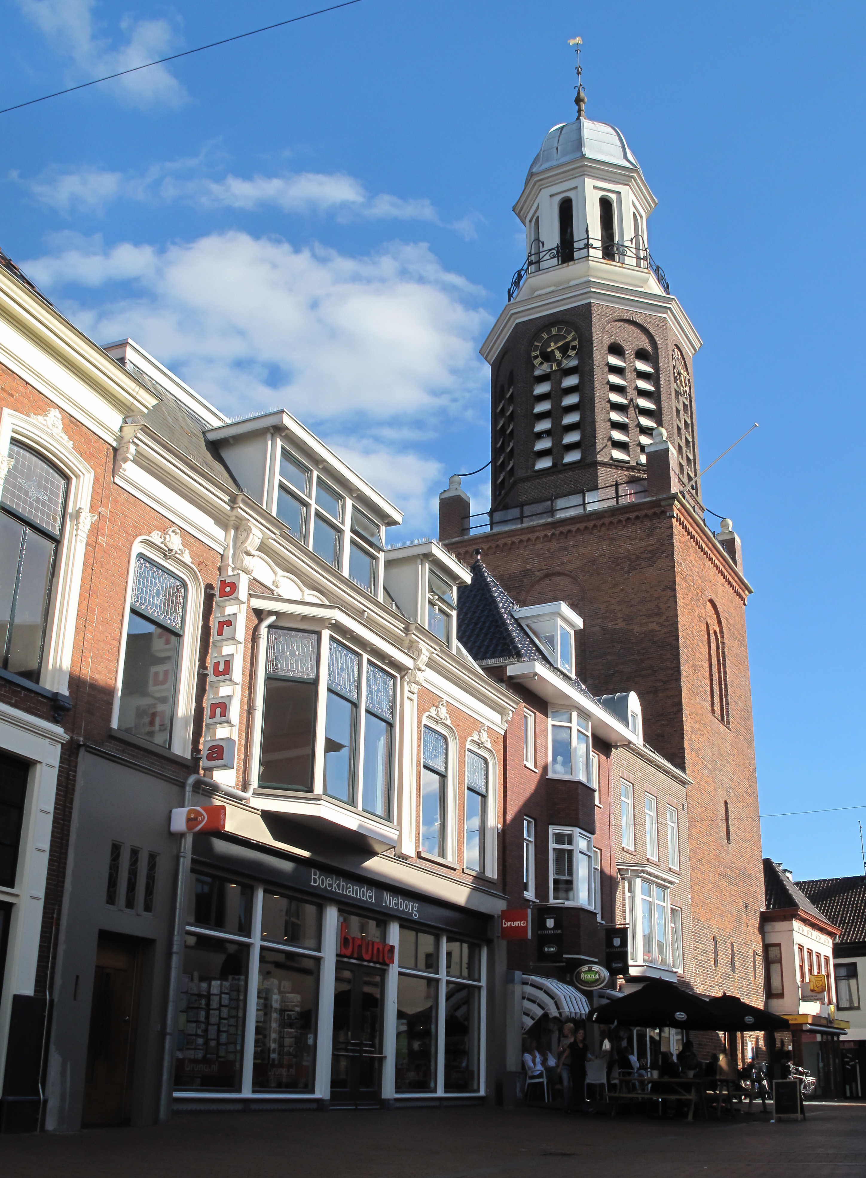 Winschoten, tower from the reformed church